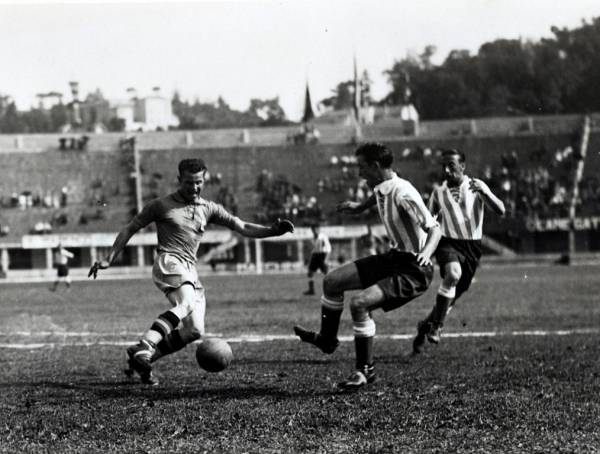 Nils "Nisse" Axelsson in Swedens first match at a WC